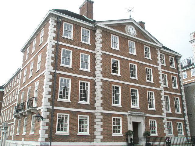 1 Crown Office Row